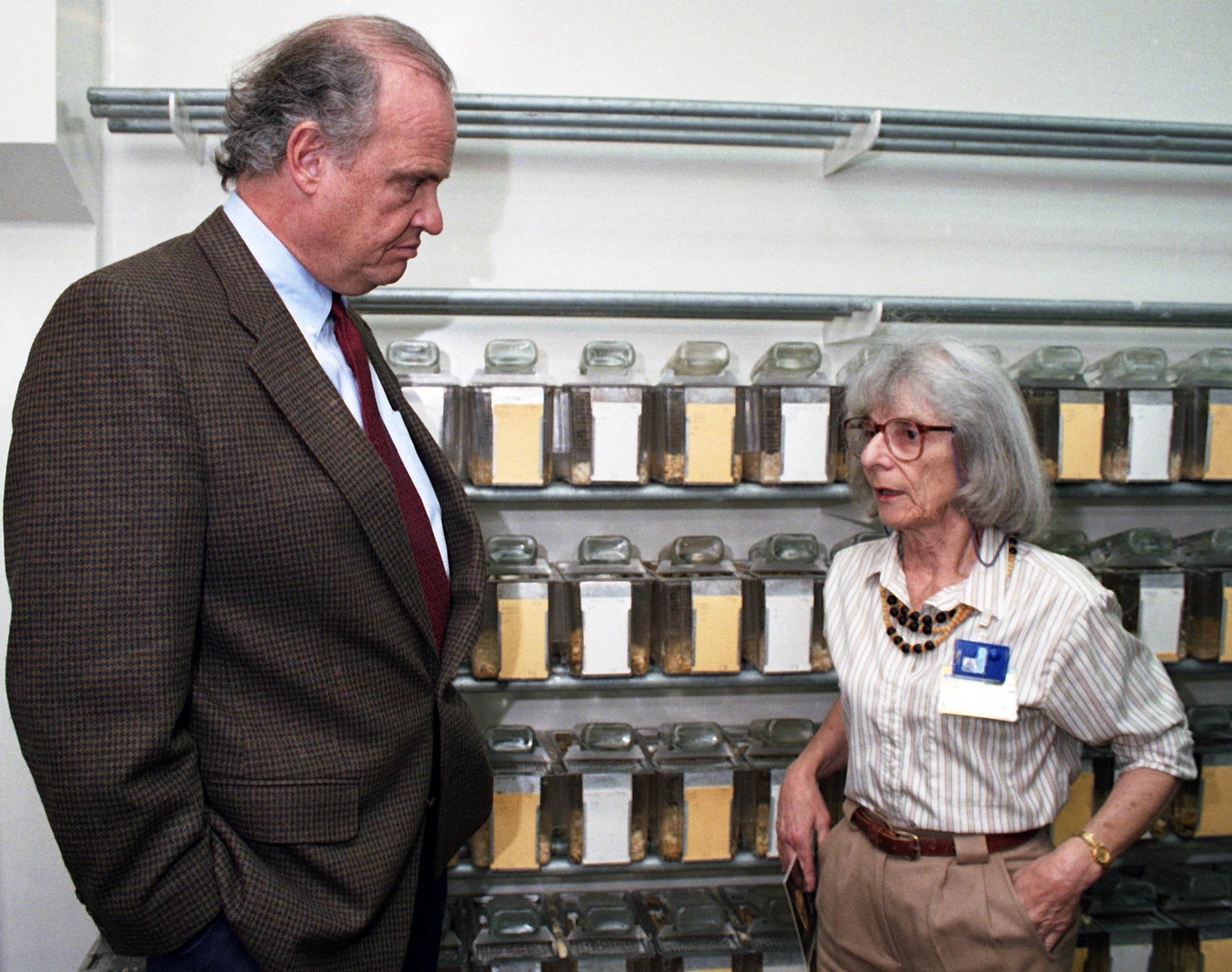 96-114 DOE photo Lynn Freeny 1996 ORNL Oak Ridge Tennessee